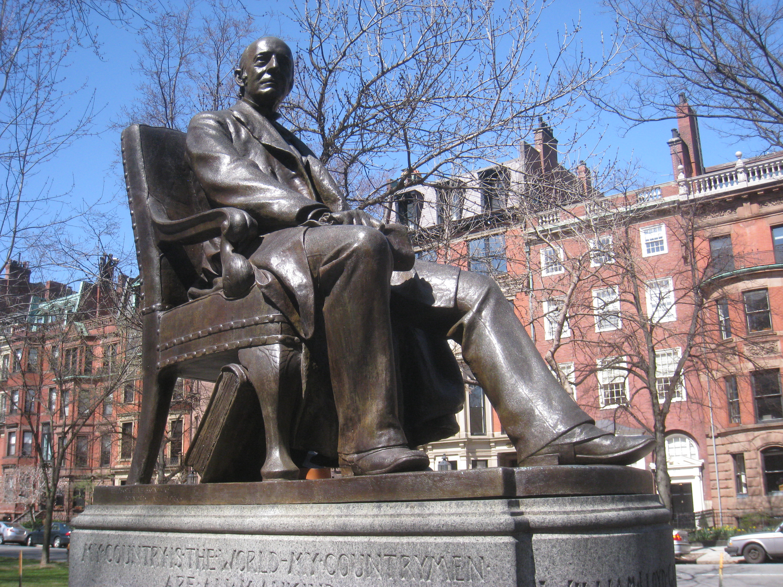 Statue of William Lloyd Garrison by Olin Levi Warner, Commonwealth Avenue, Boston, Massachusetts, USA. Dedicated 1886.